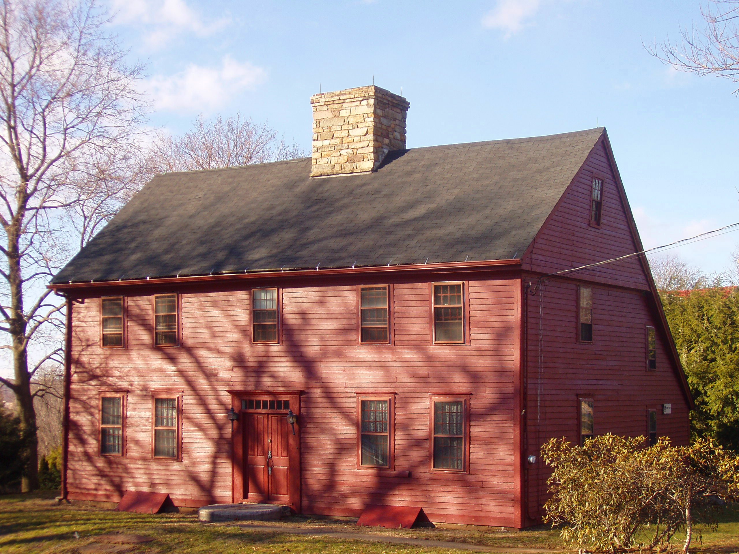 Nehemiah Royce House, 538 North Main Street, Wallingford, Connecticut. Built 1672; the oldest house in Wallingford. George Washington addressed local citizens from this site in 1775. Photograph taken by me, February 2006.